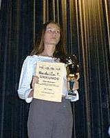 Tina Mietzner, Winterberg (Sauerland) 2002